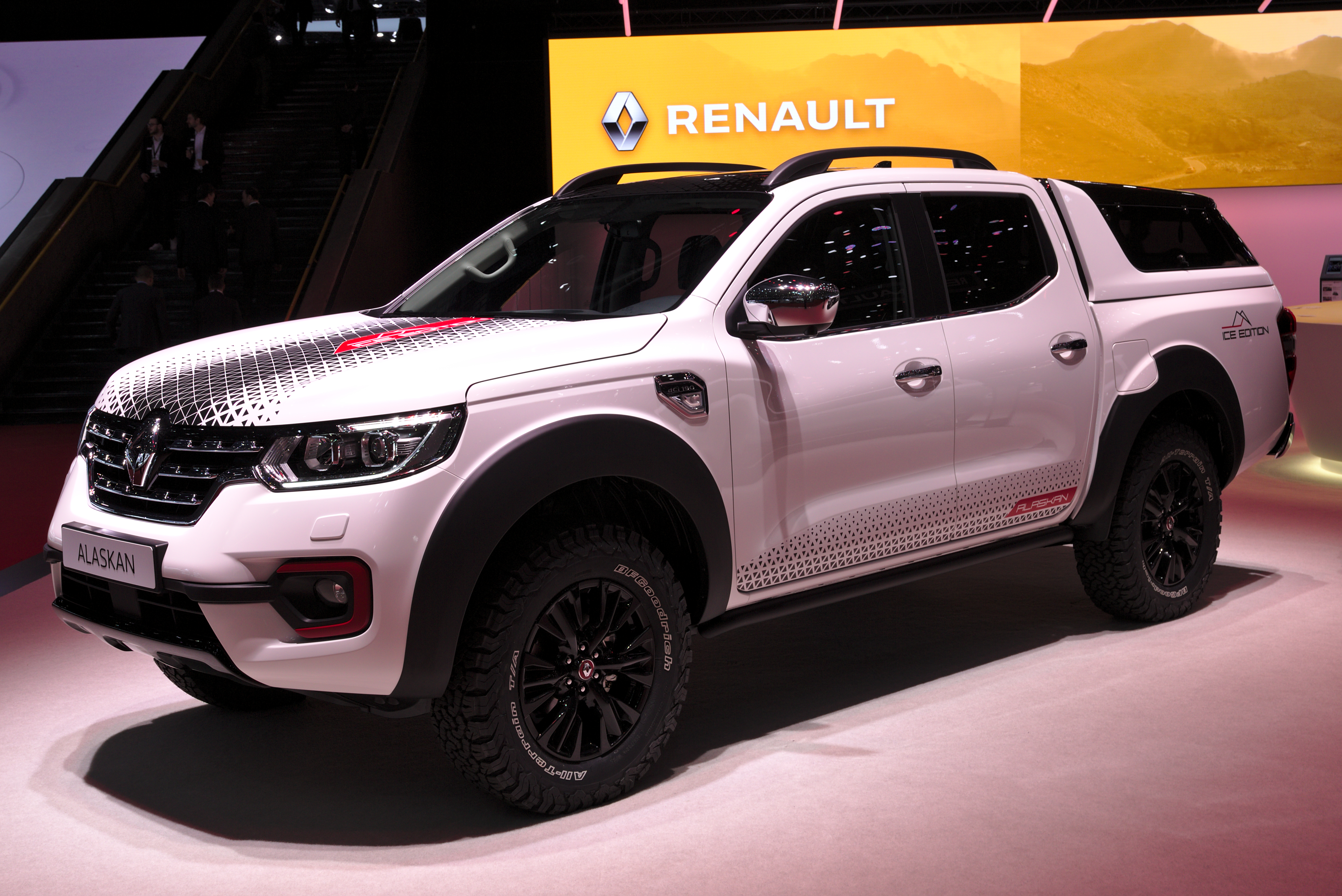 Renault Alaskan at Geneva Motor Show 2019